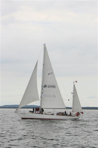 Roztocze Yacht